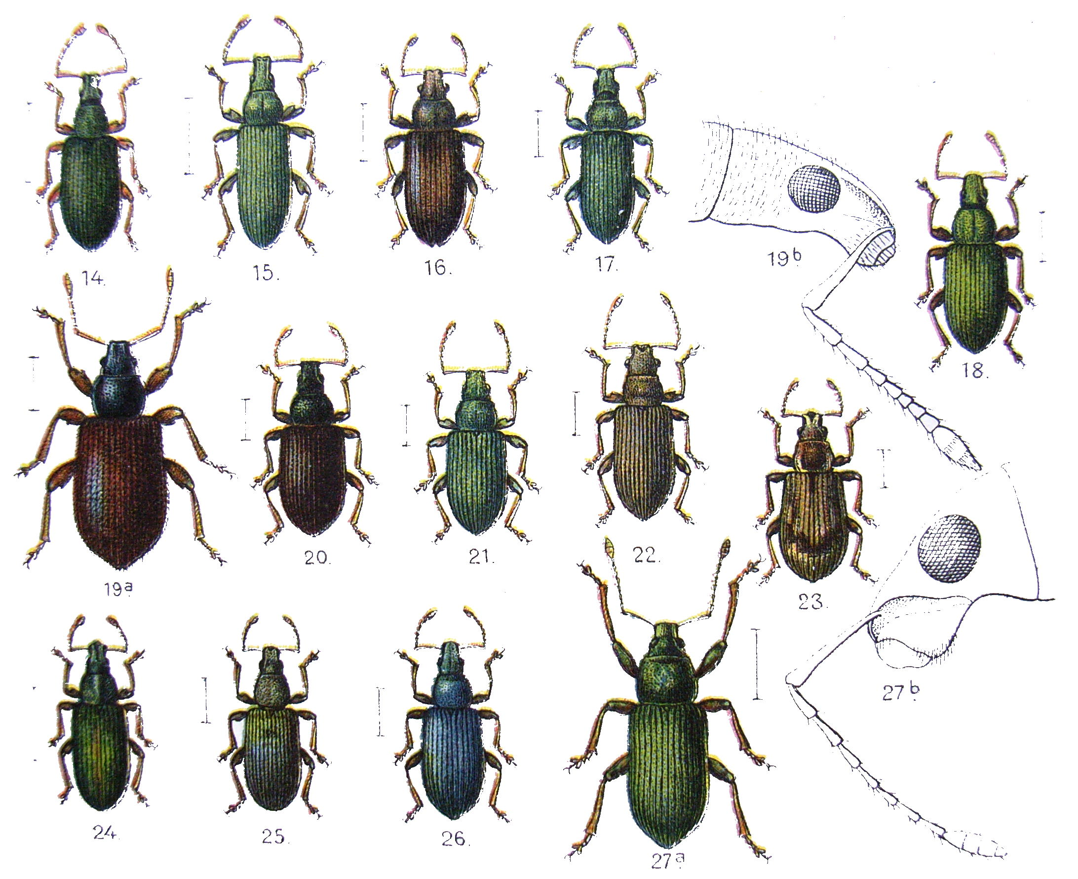 The difference between Phyllobius (#14-21), Pseudomyllocerus (#22-23) and Polydrusus (#24-27) snout beetles